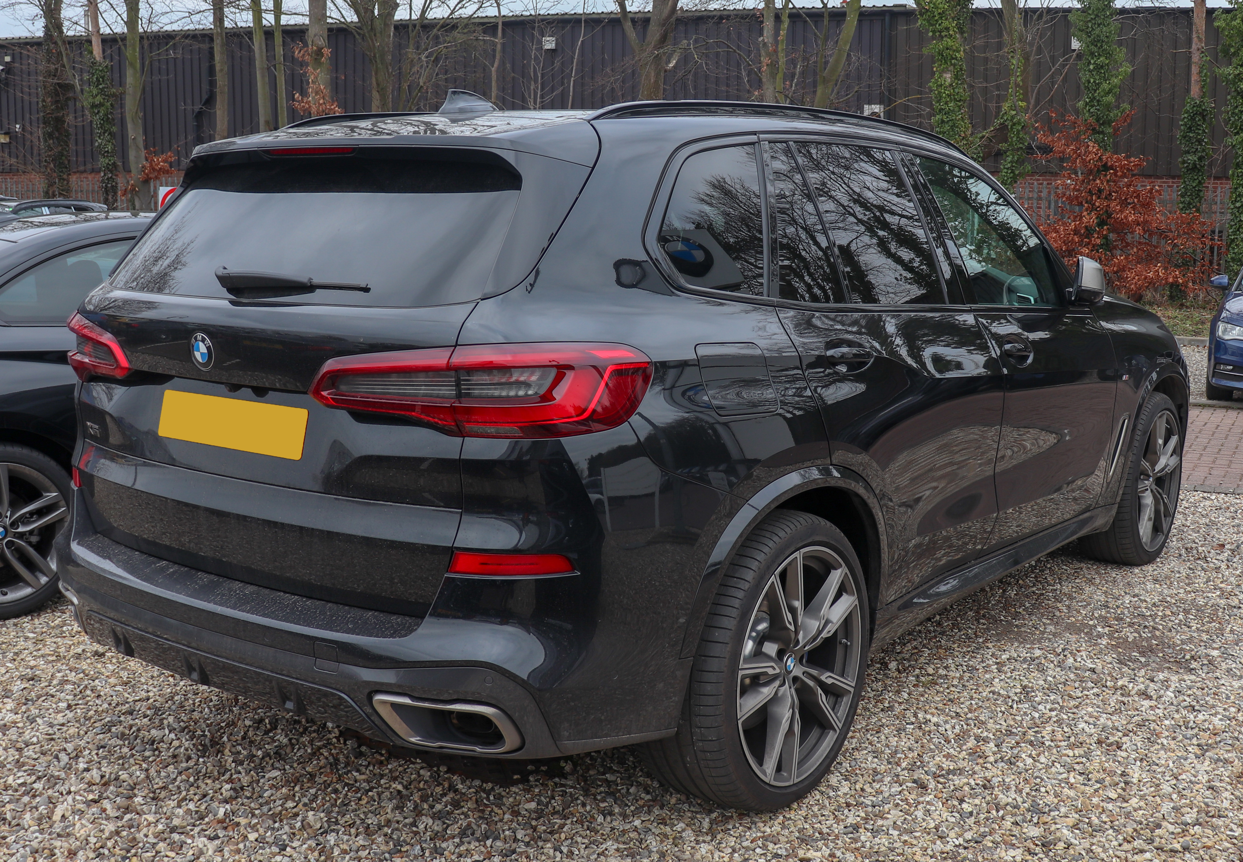 2019 BMW X5 M50d Automatic 3.0 Rear Taken in Leamington Spa